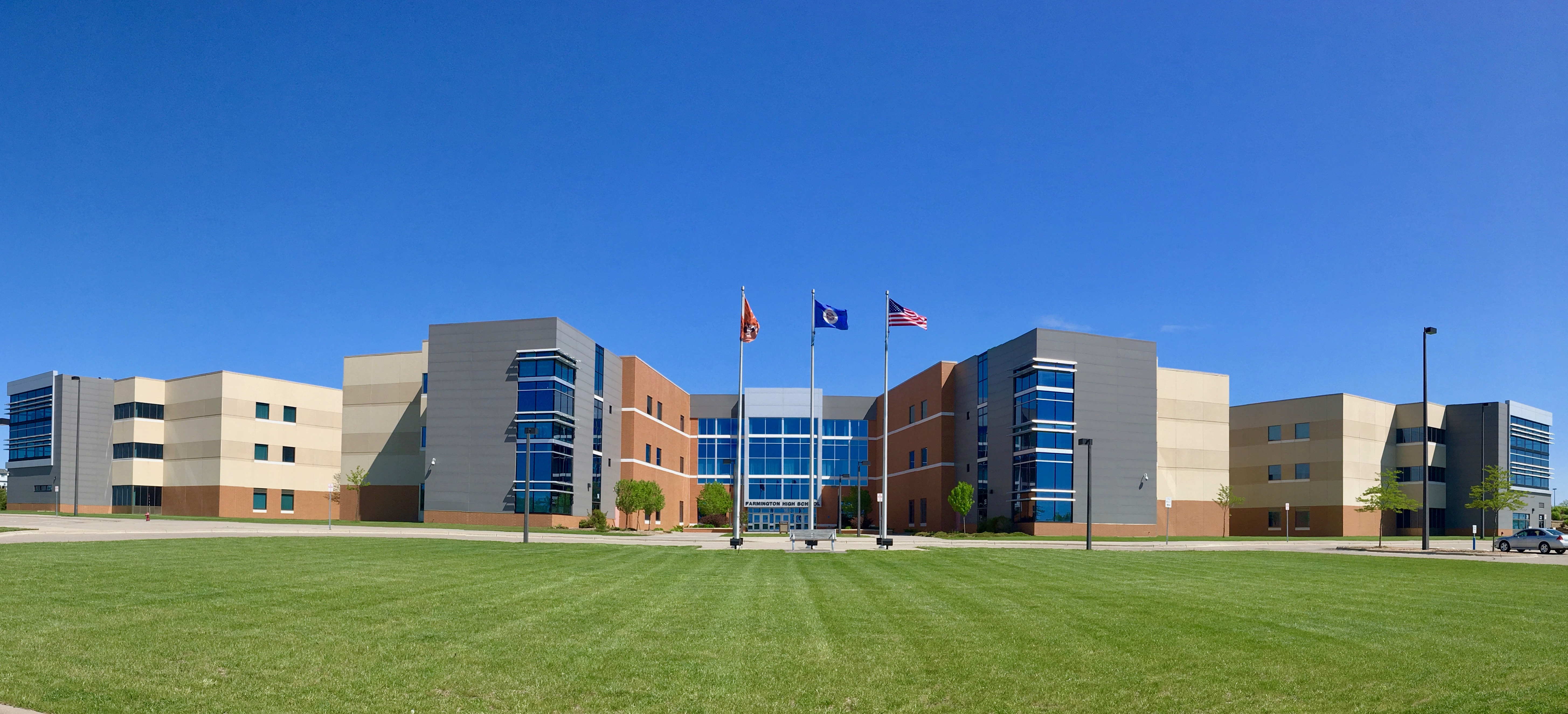 Farmington High School as seen from the south (District Office Entrance)